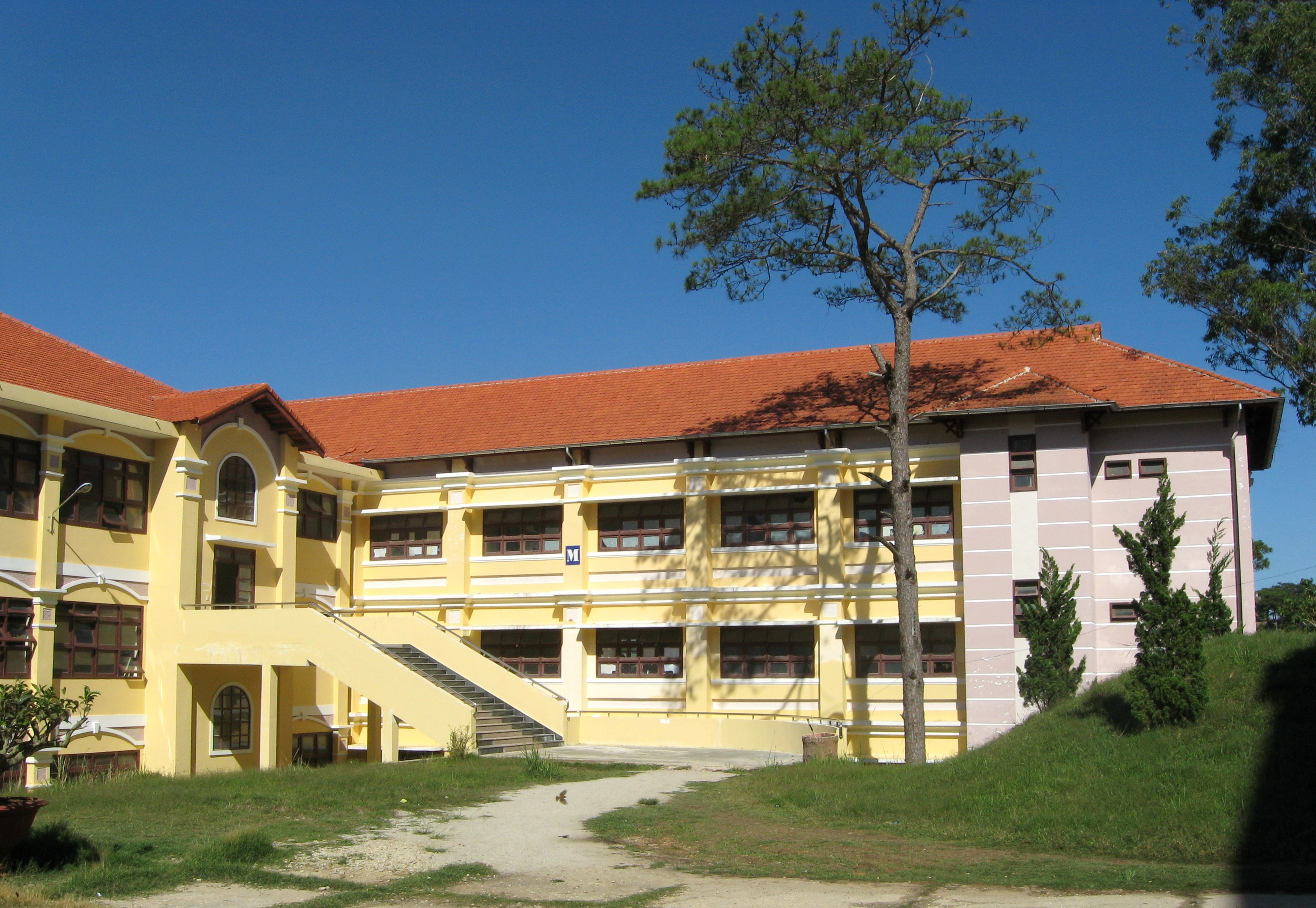 Yersin University of Da Lat